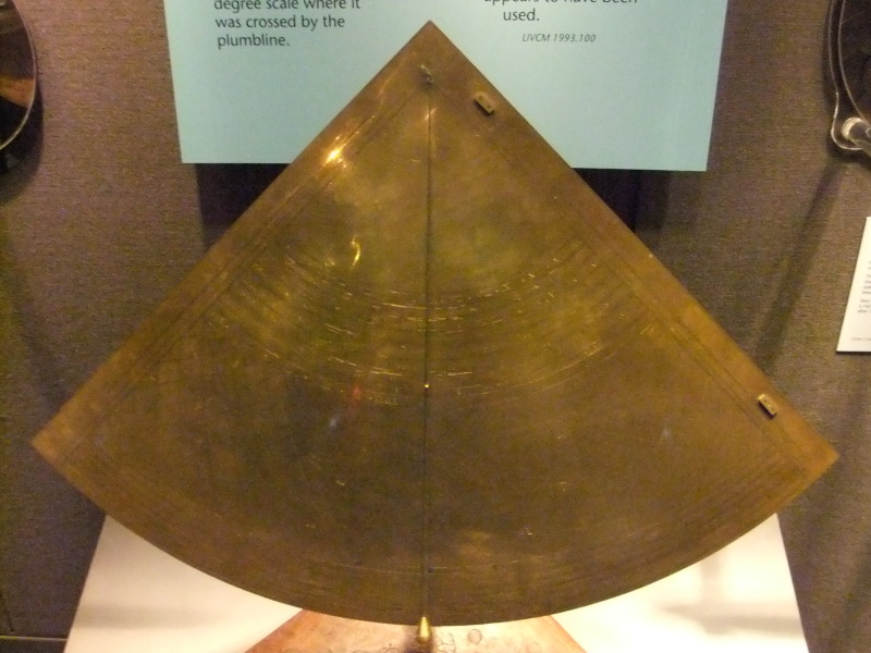 Quadrant (astronomical instrument), World Museum Liverpool, England. Made by Henry Wynne around 1690.